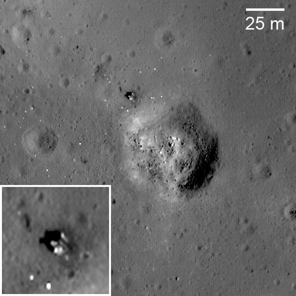 Luna 24 landed on the northwestern rim of a 64 m diameter impact crater Lev, on the volcanic plains of Mare Crisium. Enlargement of lander at lower left, NAC M174868307L [NASA/GSFC/Arizona State University].